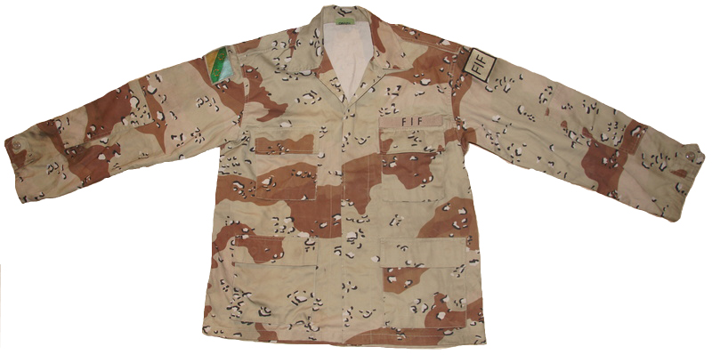 Free Iraqi Force (FIF) desert coat with sewn on "FIF" shoulder patch and branch, as well as the Free Iraqi Force flag.